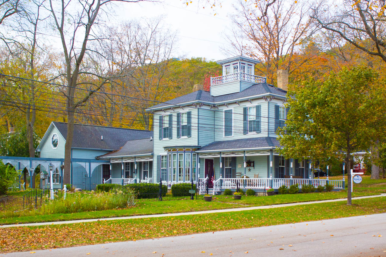 National Register of Historic Places Benzie County, MI